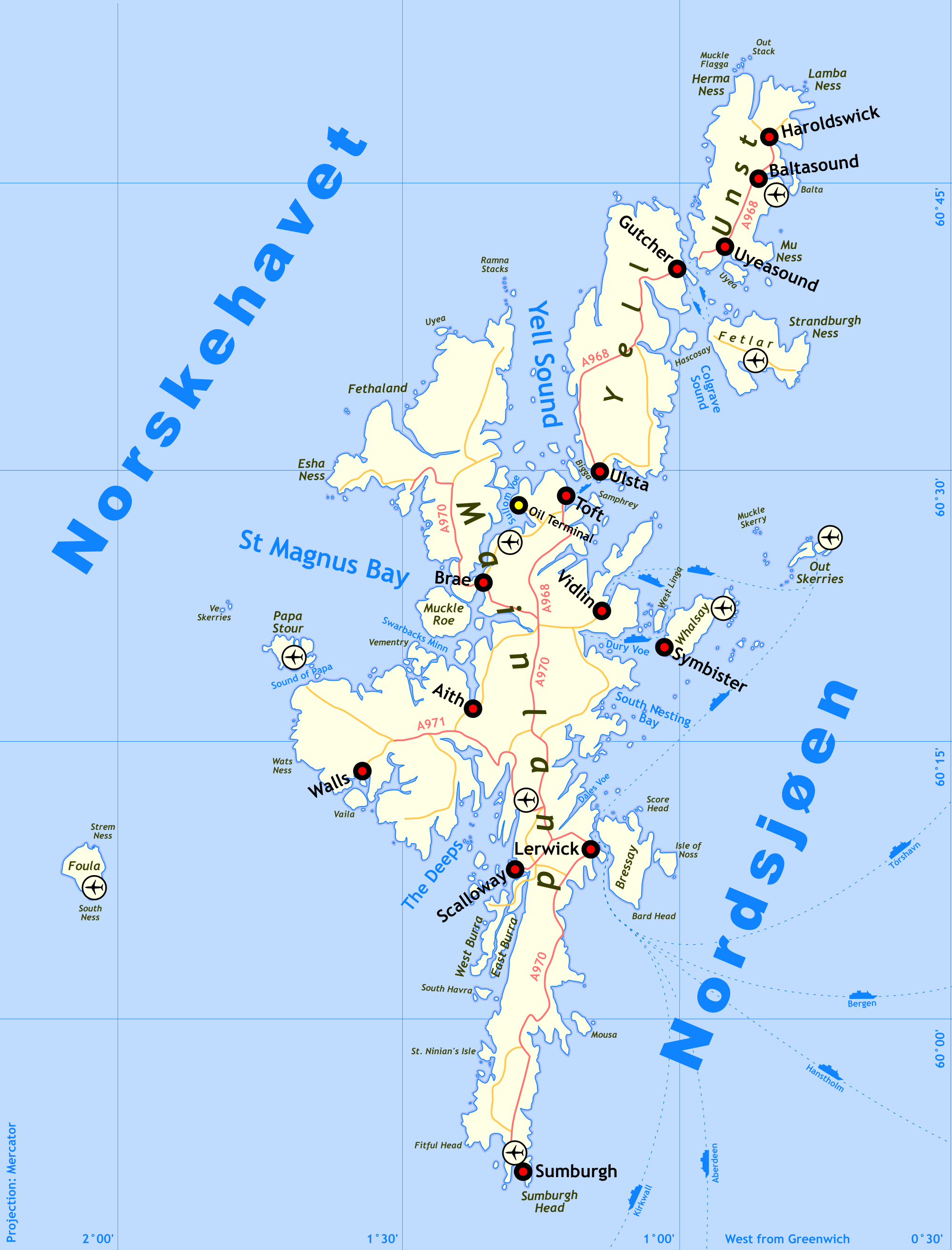 Kart over Shetland, norsk utgave (Map of Shetland, Norwegian edition)